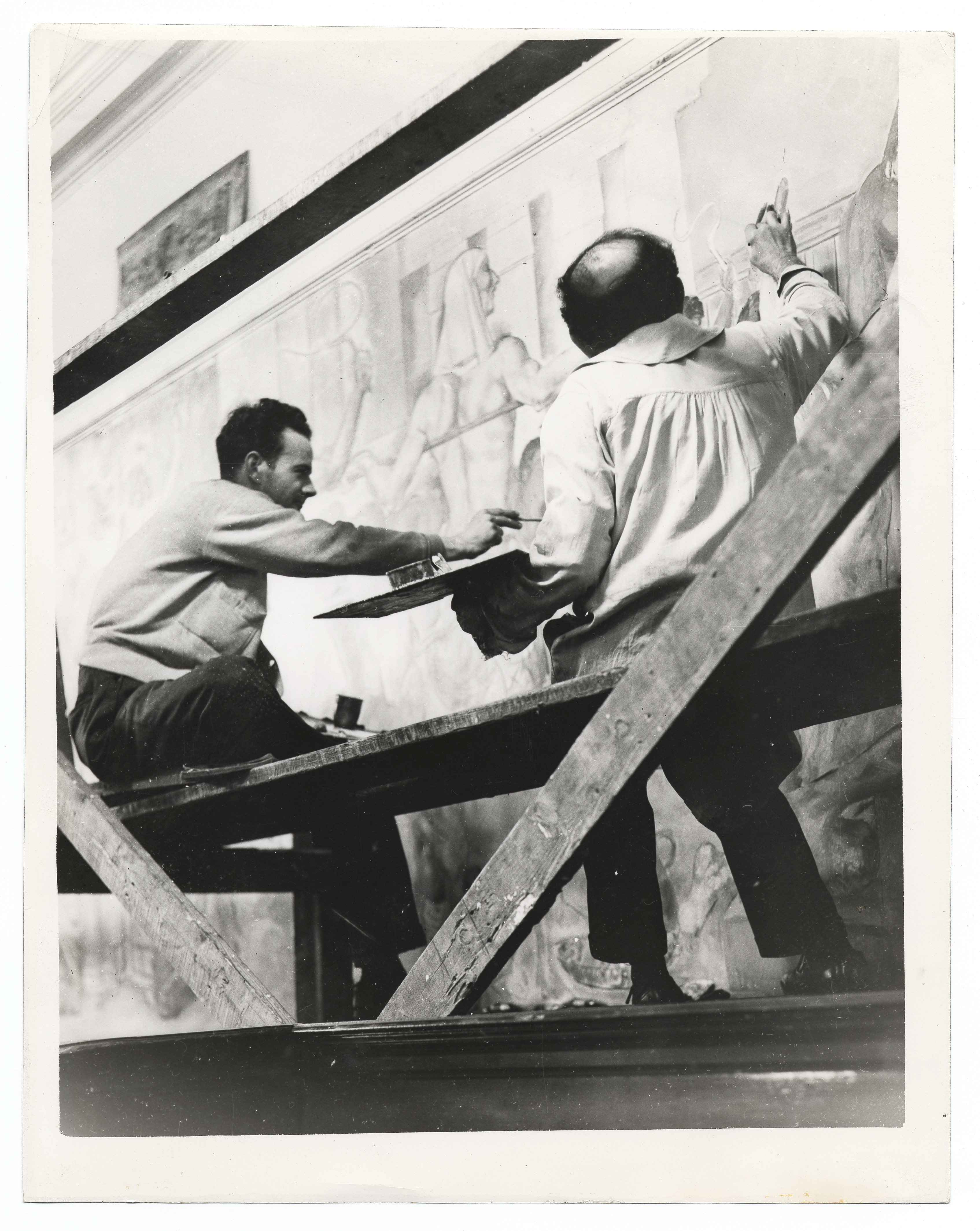 Karfunkle and an unidentified artist at work on mural. Identification on accompanying label (typewritten): Artists at work on mural at: Harlem Court, 170 East 121st Street, New York City, designed under the direction of the Federal Art Project, WPA, New York City Location: 3rd Floor, East Wall; Title: Labor; Artist: David Karfunkle; Medium: oil on canvas.